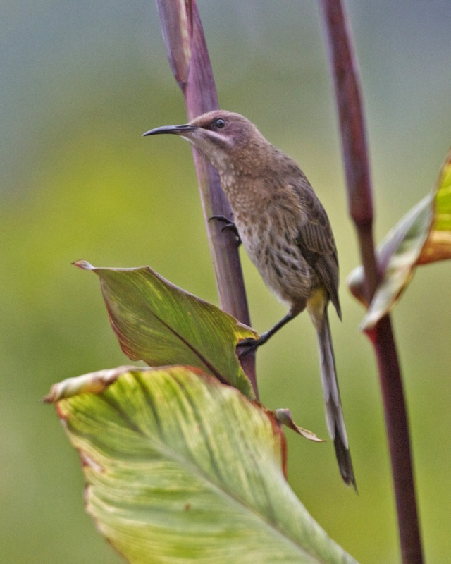 Cape Sugarbird Promerops cafer 4th. October 2009 Moore's End, A proteus farm in Stellenboch, South Africa Distribution